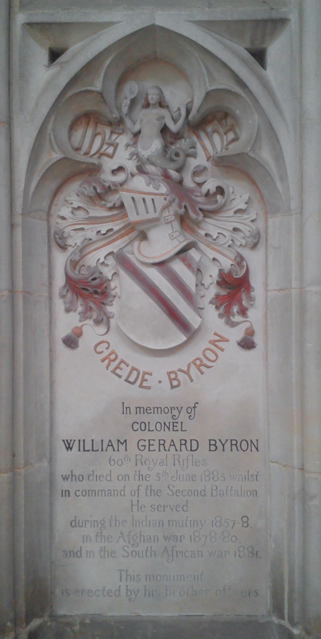 Winchester Cathedral, memorial for Colonel William Gerard Byron (died 1885). Location: South wall of the Nave.